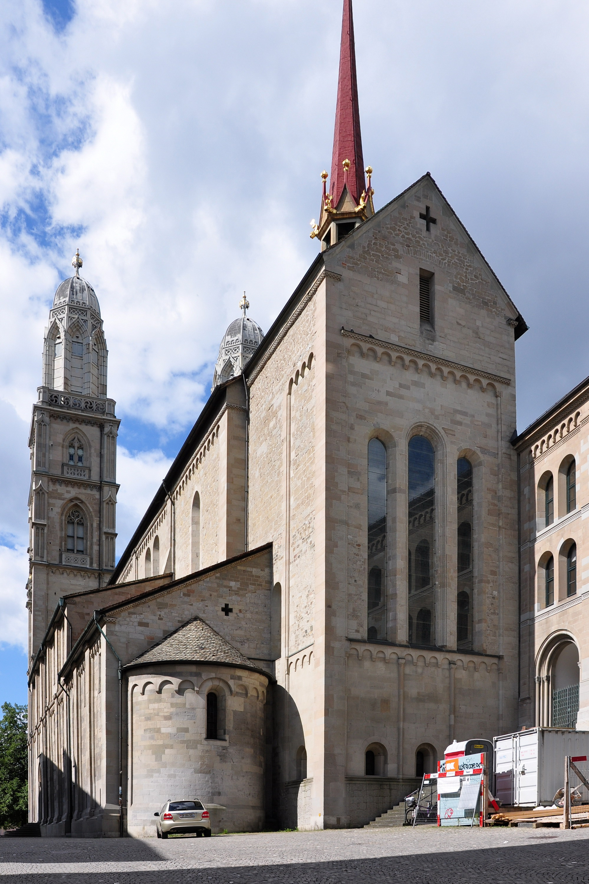 Grossmünster in Zürich (Switzerland), as seen from Kirchgasse, former Höhere Töchterschule (as of today Theologisches Seminar) to the right, Grossmünsterplatz to the left.